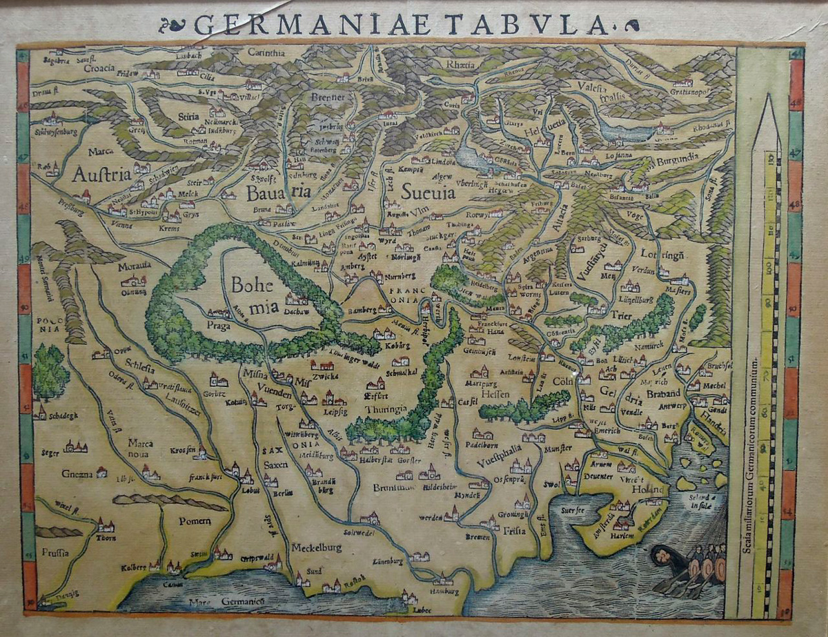 A Map of Germany (Germaniae Tabula), printed at Basel in 1540 by Sebastian Münster for his Cosmography (Cosmographie) from a woodcut. An extra-Ptolemaic map, facing south.